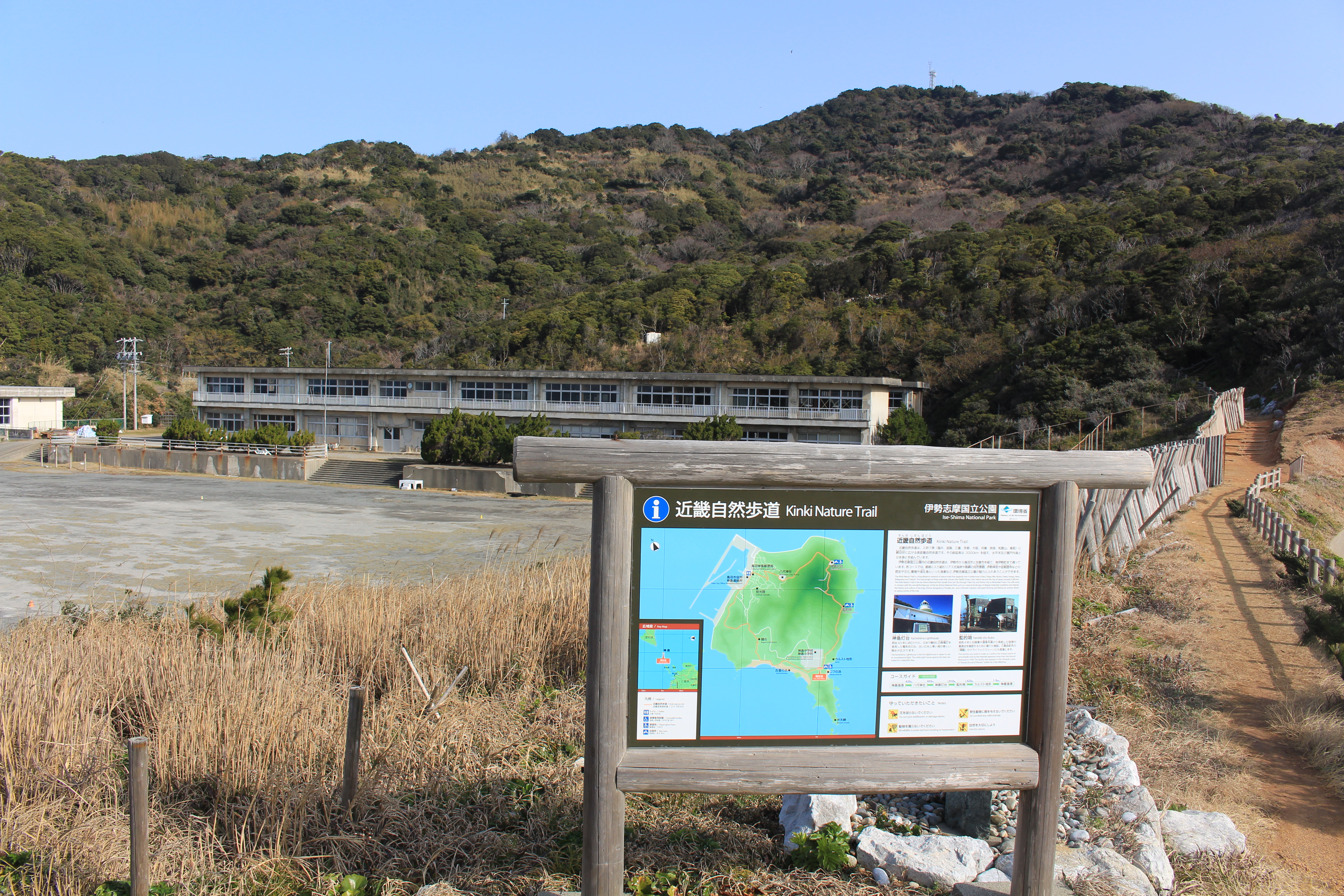 Kinki Natural Trail and Kamishima Elementary and Lower Secondary School, in Kami Island, Toba, Mie prefecture, Japan.